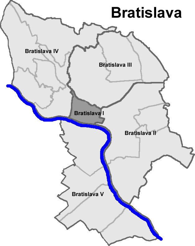 map of the city parts of Bratislava, Slovakia, city part of Staré Mesto highlighted selfprovided on June 30th, 2005